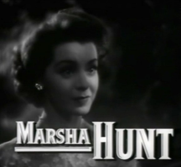 Cropped screenshot of Marsha Hunt from the trailer for the film The Human Comedy.